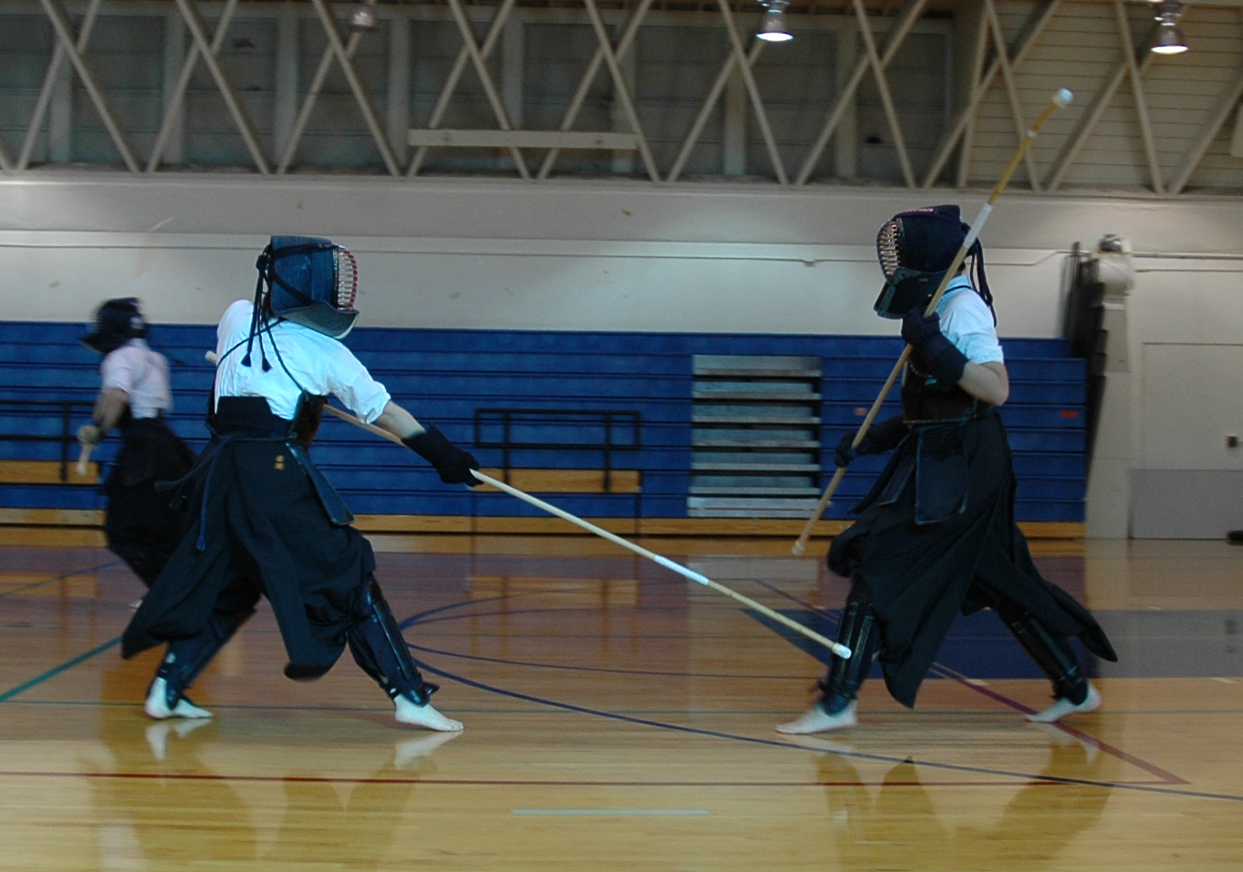 Bogu demonstation by students from the International Budo University in Japan. Demonstration of a proper sune (shin) strike. The defender is in a deliberately open position, offering her sune as a target.